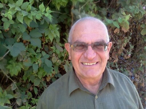 Victor Ben-Naim